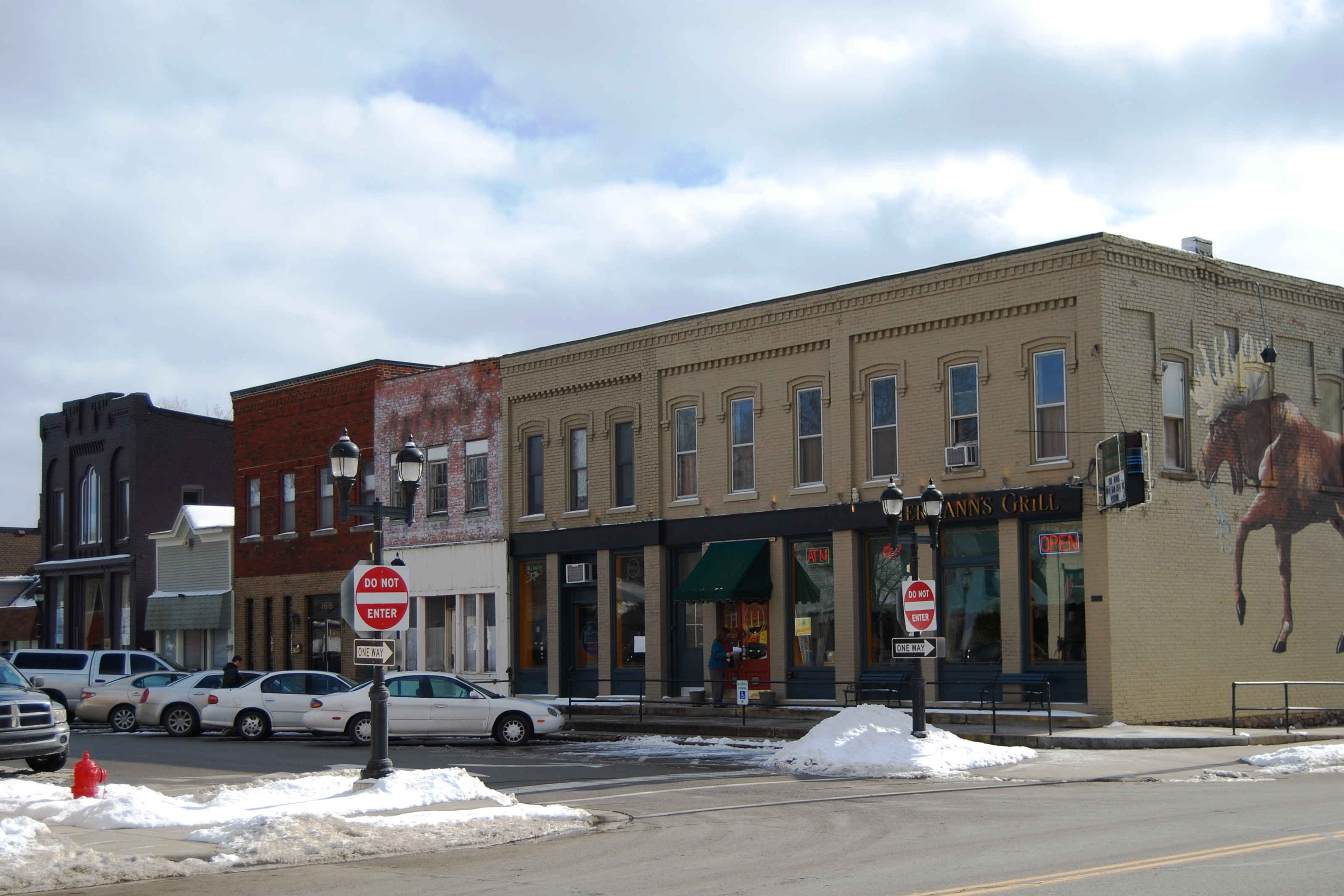 Plymouth, Michigan Old Town.